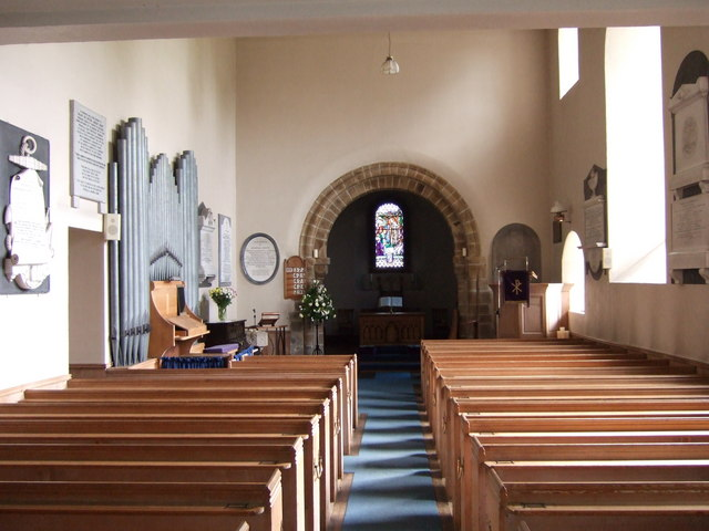 Interior of Monymusk Church